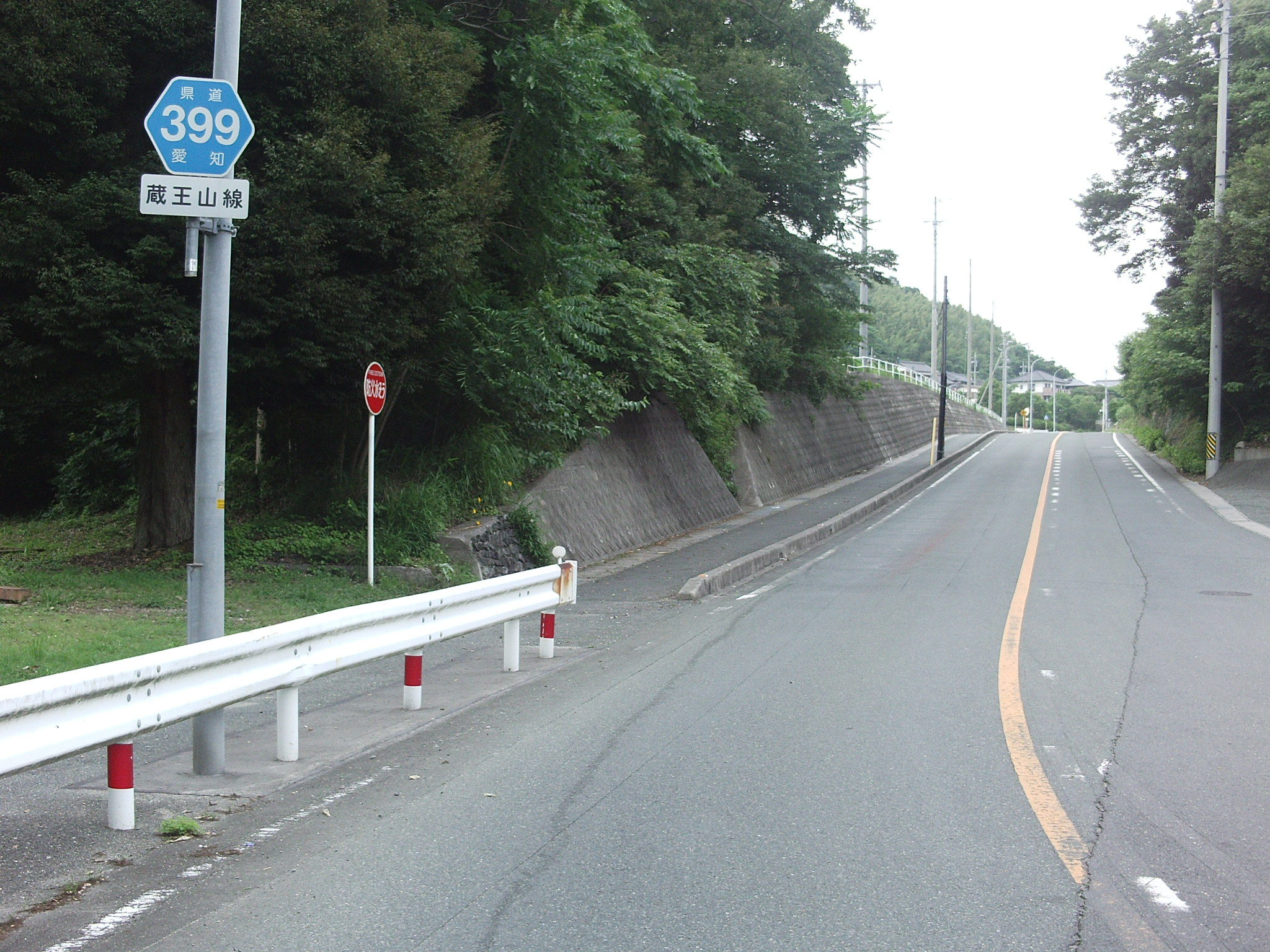 The Aichi Prefectural Road Route 399 in Taharacho, Tahara City